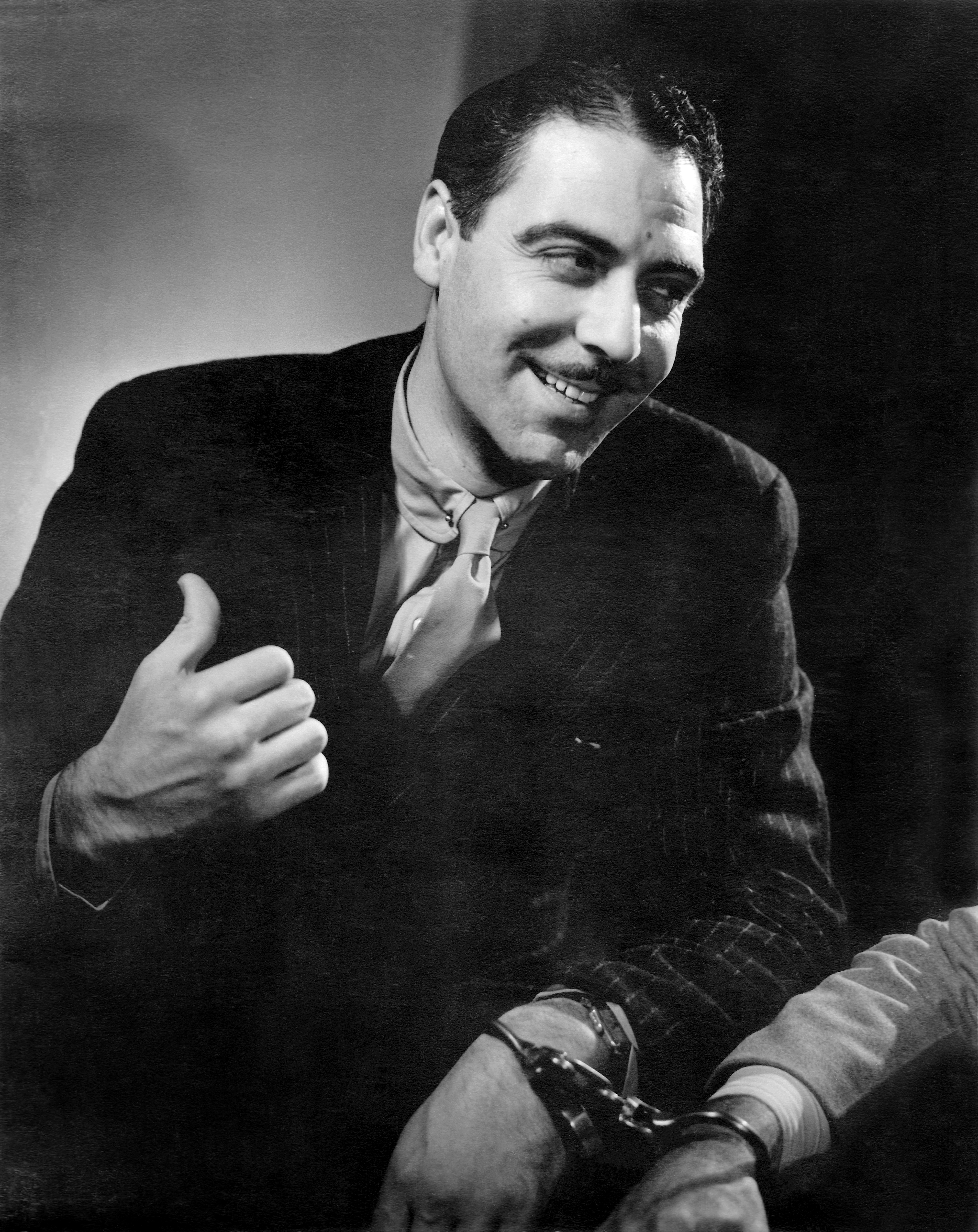 Photograph of Joseph Calleia (Joseph Spurin-Calleia) in the Broadway production Small Miracle (September 26, 1934–January 5, 1935). Produced by Courtney Burr (1891–1961), the play was written by Norman Krasna and directed by George Abbott.